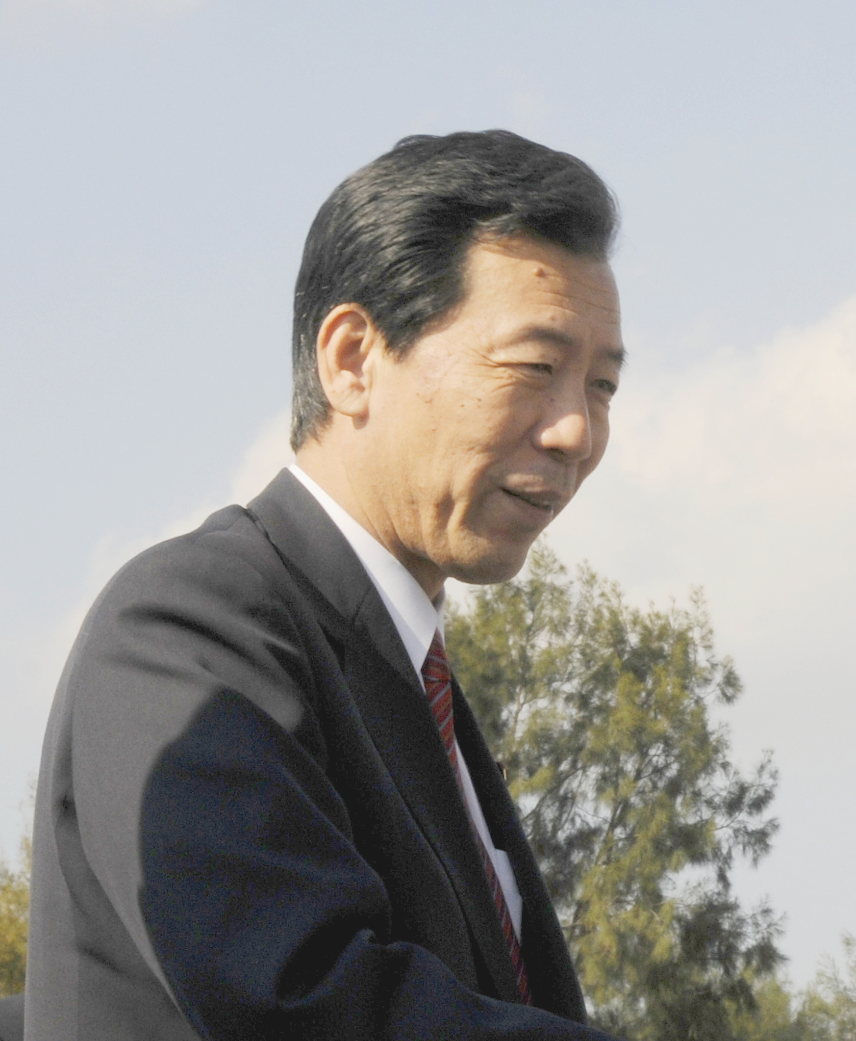 Hirofumi Hirano, Chief Cabinet Secretary, shaked hands with Ken Wilsbach, Commander of the 18th Wing, at Kadena Air Base in Kadena Town, Nakagami District, Okinawa Prefecture on January 9, 2010.